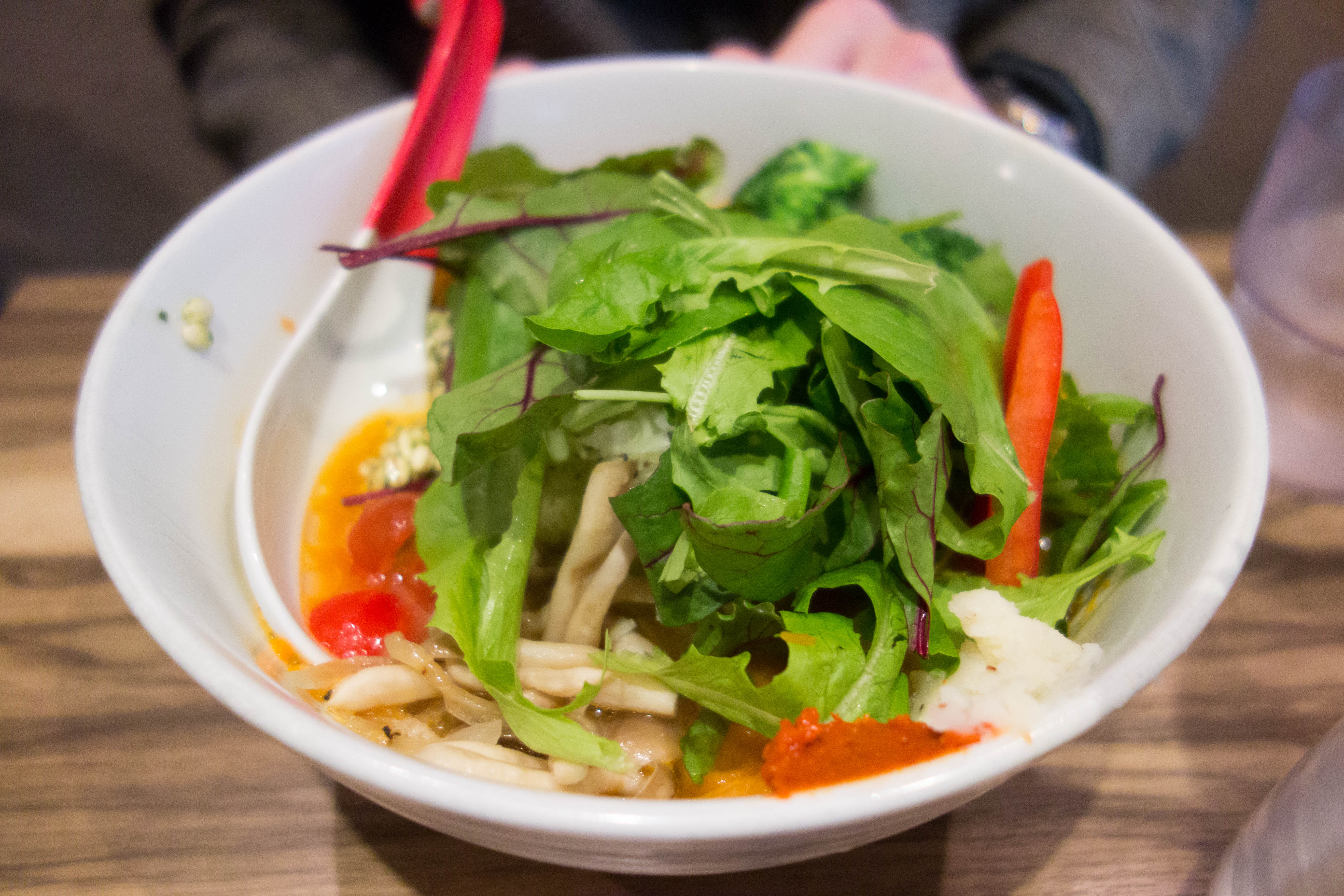 Soranoiro ramen2